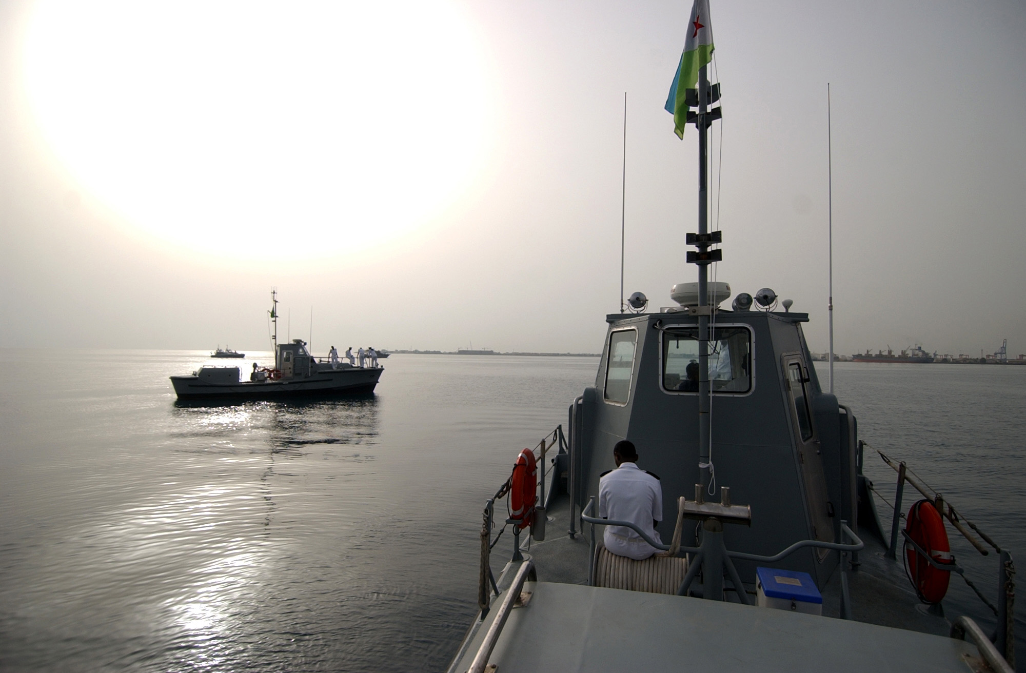 Djibouti, Africa (June 15, 2006) - Djiboutian navy vessels gathered at the port in Djibouti City for a celebration of the newly acquired naval ships. Four U.S. Coast Guard vessels were given to the Djiboutian Navy. As part of a parade, one of the four former U.S. Coast Guard PT boats leads a group of smaller Djiboutian vessels on the way into the port of Djibouti. U.S. Navy photo by Mass Communication Specialist 2nd Class Roger S. Duncan (RELEASED)